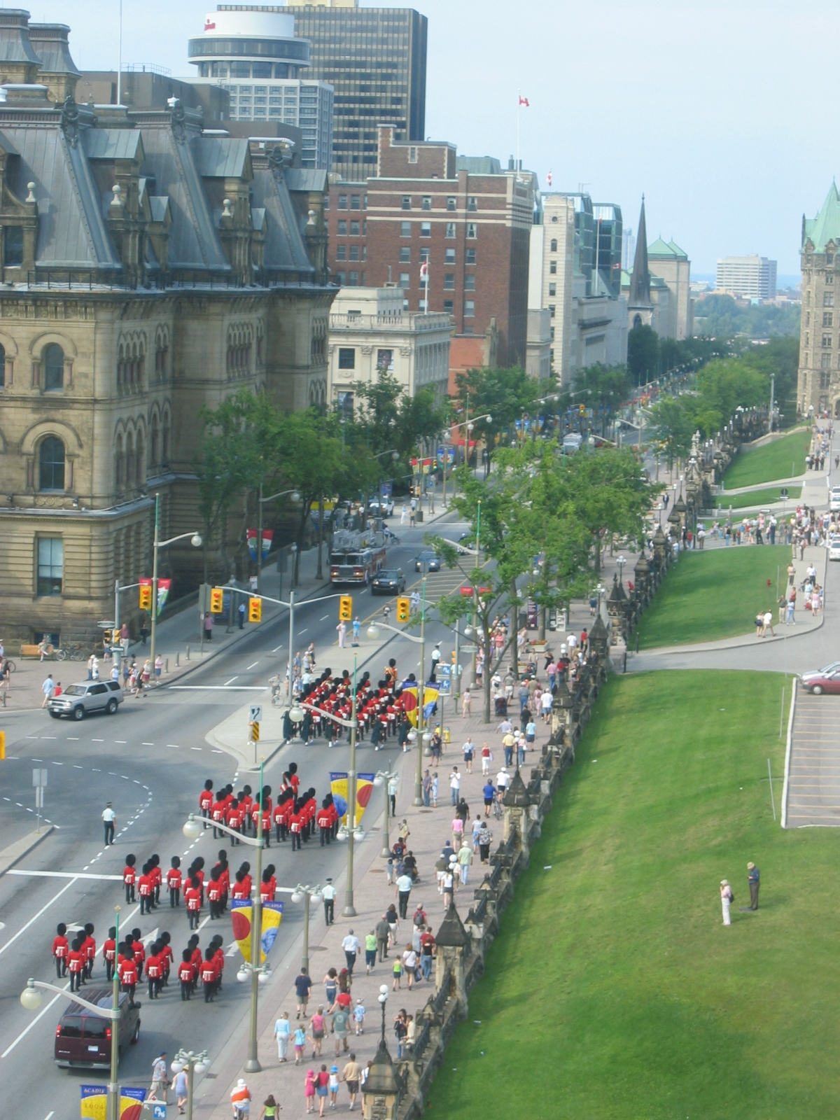 Parade of the Governor General's Foot Guards on Wellington Street, Ottawa, Canada.